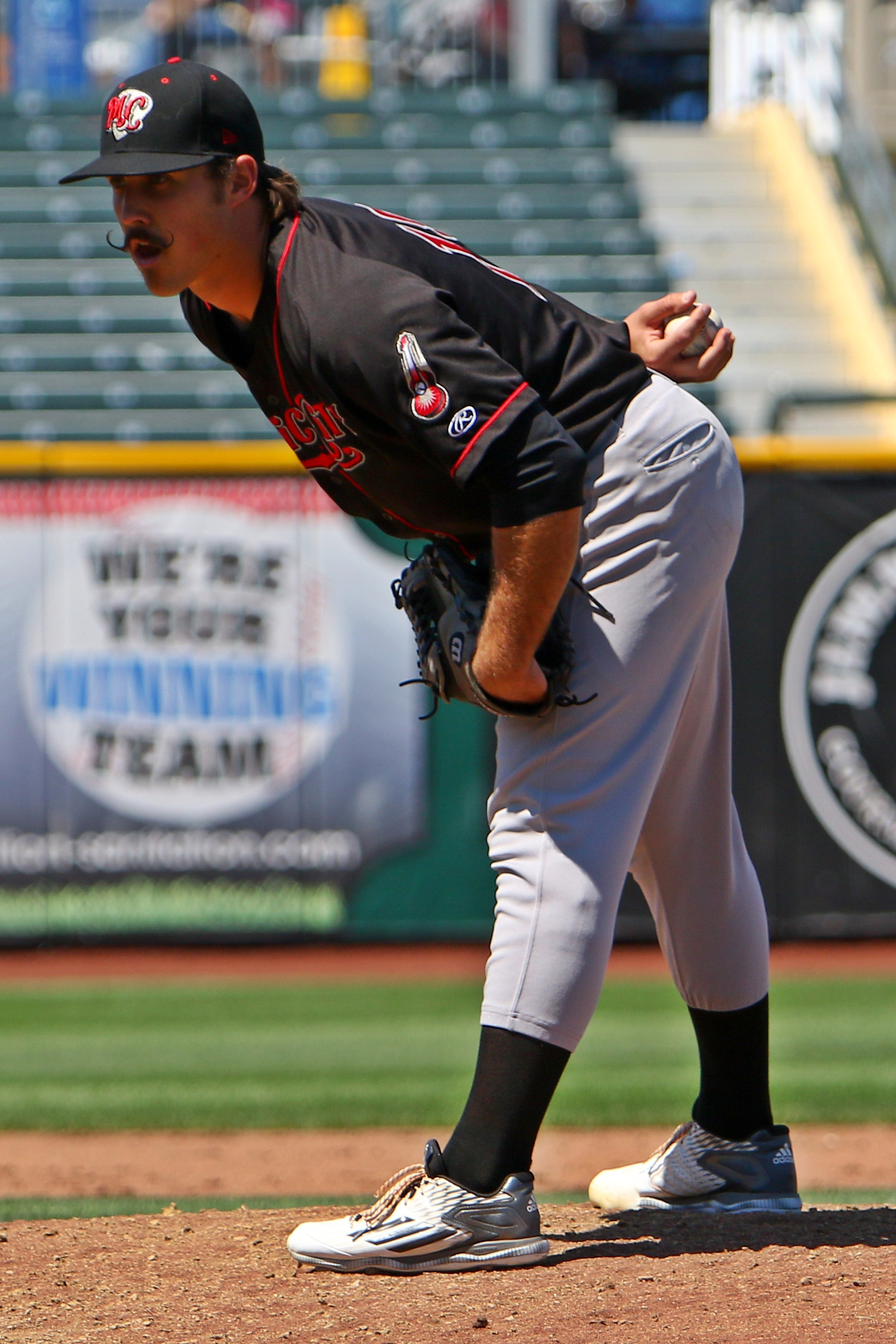 Minda Haas Kuhlmann | 2016 USAGE INSTRUCTIONS: You are welcome to share or publish to your own site or social media account, but you MUST credit me, Minda Haas Kuhlmann, or by my Twitter handle (@minda33) or Instagram (minda.haas).